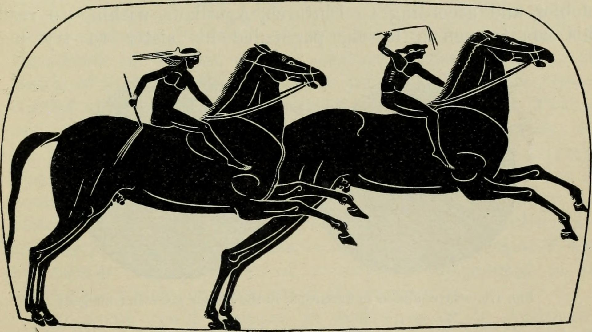 Title: Greek athletic sports and festivals. Image from Panathenaic prize, now in British museum B133. Year: 1910 (1910s) Authors: Gardiner, E. Norman (Edward Norman), 1864-1930 Subjects: Athletics Sports Olympics Fasts and feasts Publisher: London : Macmillan and Co.